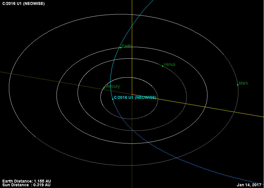 Orbit Diagram - Comet C/2016 U1 (NEOWISE) on 14 January 2017, closest approach to the Sun JPL Small-Body Database Browser (C/2016 U1 (NEOWISE)). JPL (30 December 2016). Retrieved on 30 December 2016. NASA's NEOWISE Mission Spies One Comet, Maybe Two. NASA (29 December 2016). Retrieved on 29 December 2016.